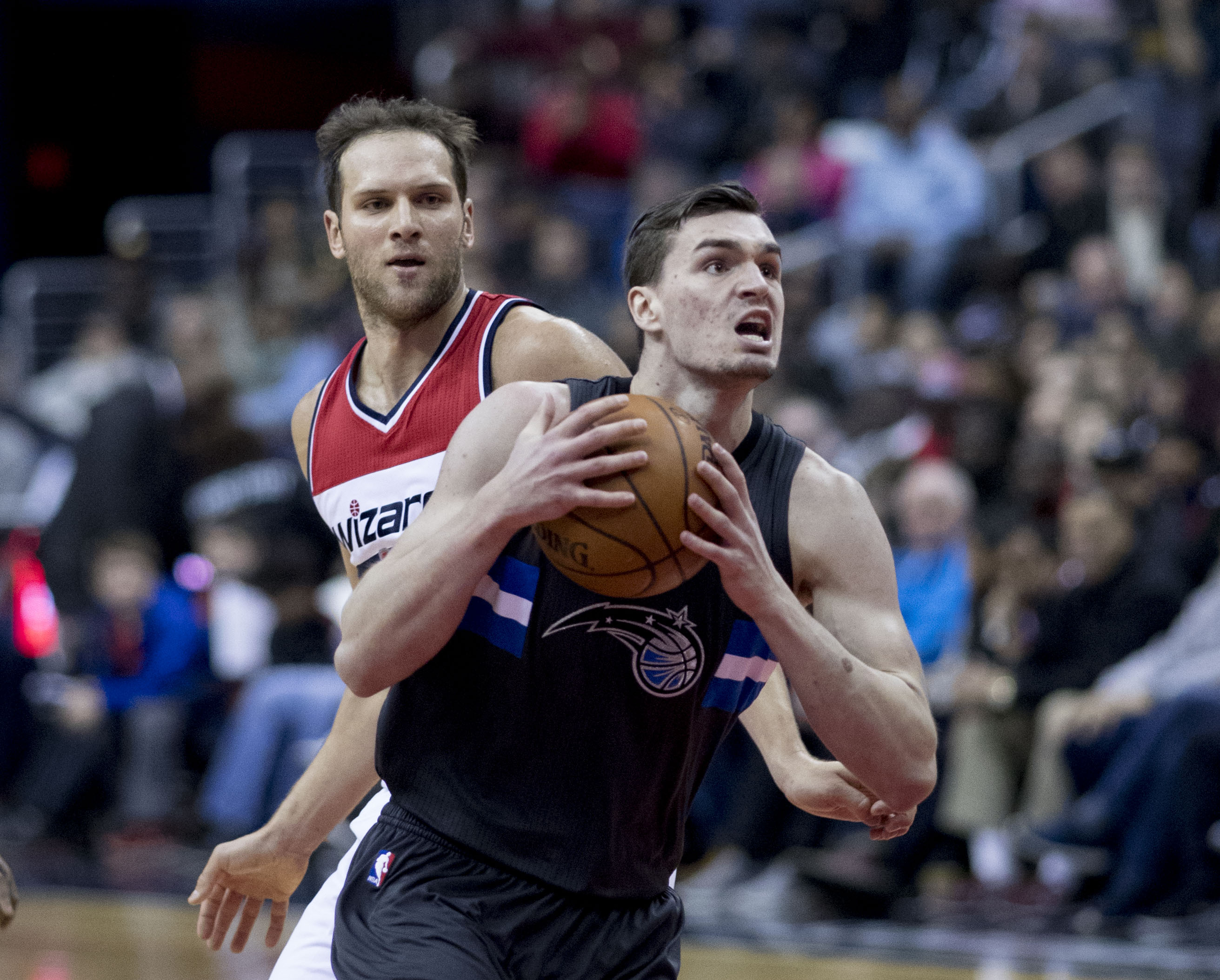 Magic at Wizards 3/5/17